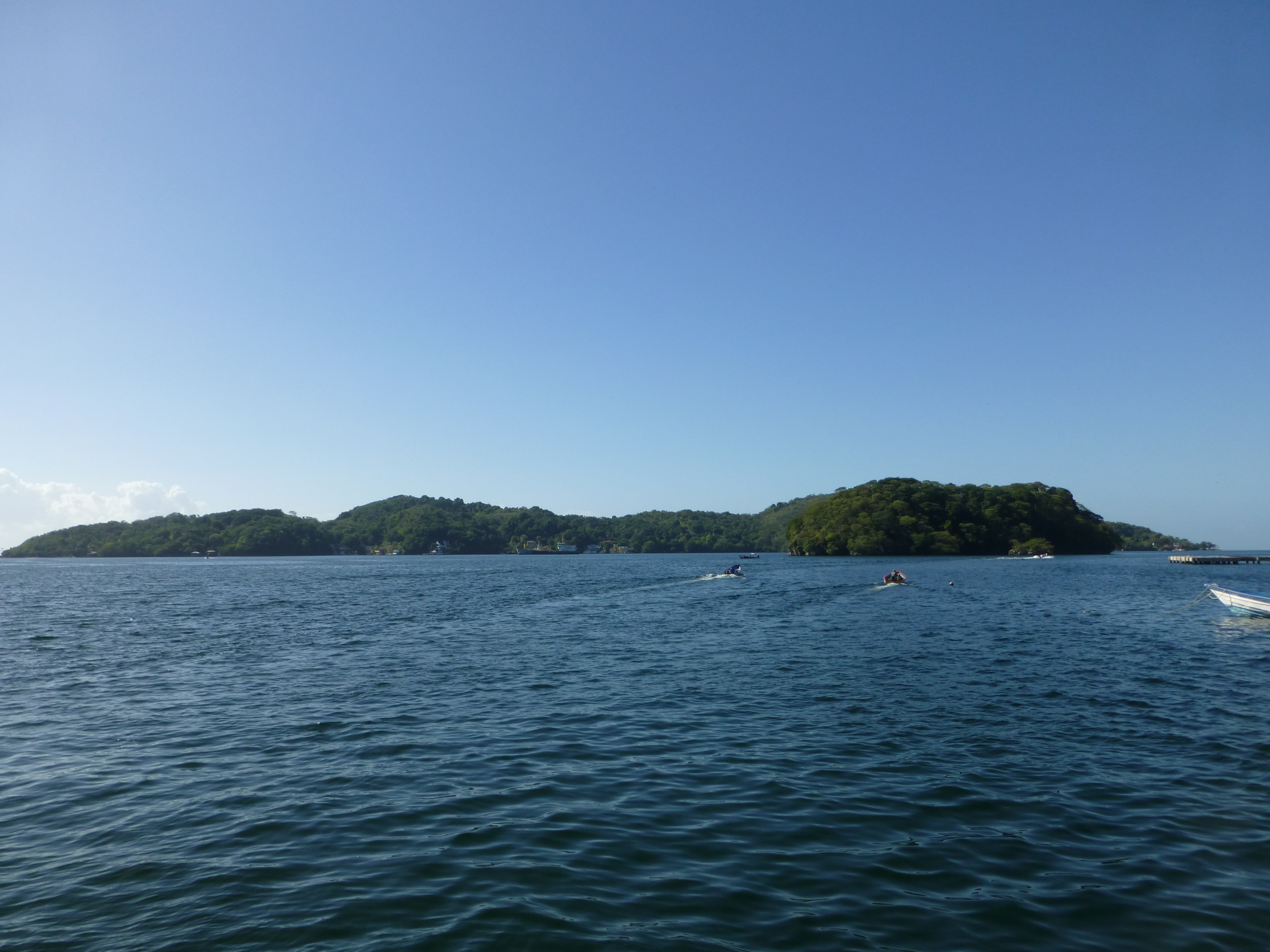 Gaspar Grande, Trinidad. In front: Centipede Island.